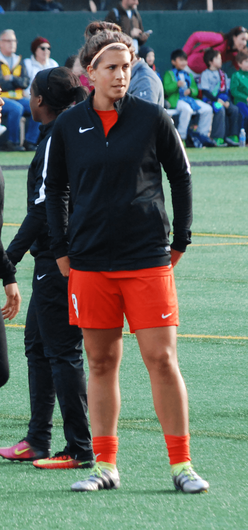 Sarah Hagan, Seattle Reign FC vs Houston Dash, April 22, 2017, Memorial Stadium, Seattle, WA